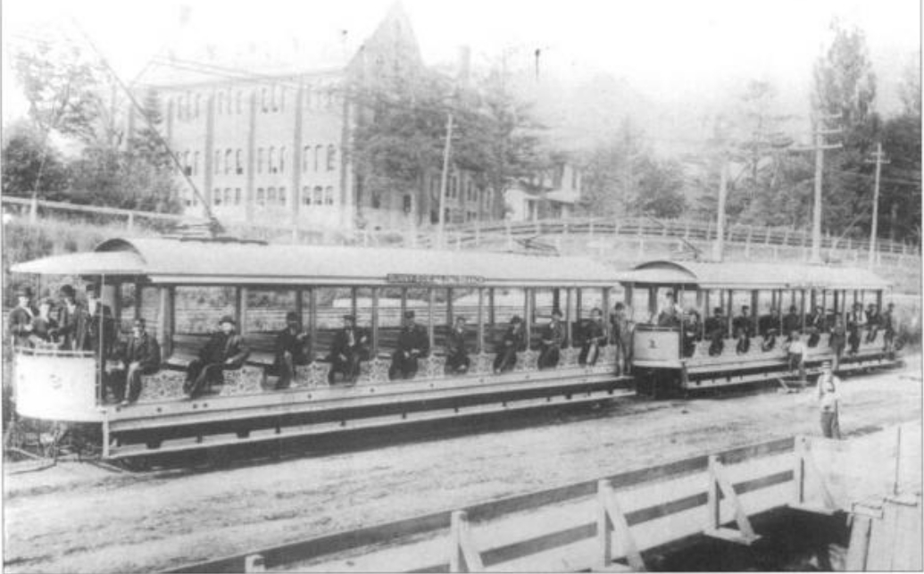 Item is a January 1924 copy photograph of an 1896 view of double truck open car Nos. 1 and 3 on the Mimico line on Lakeshore Road, Sunnyside, near Indian Road. Sacred Heart Orphanage appears in the background.